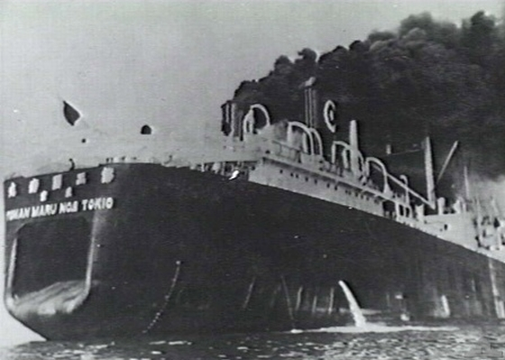 Starboard quarter bow view of the Japanese whale factory vessel Tonan Maru No. 2 which was drafted into military use and then damaged by Dutch Dornier flying boats of GVT-2 from Tondano, Celebes, in the Netherlands East Indies on 23 Dec 1941 while taking part in the landing at Kuching, Borneo. Note the ramp in her stern to haul whale carcasses up to the flensing deck. The ship was repaired, avoided a torpedo attack on 25 June 1942, was sunk by the USS Amberjack 10 Oct 1942, raised, hit by the USS Bonefish 9 Feb 1944, repaired, sunk again by the USS Pintado 22 Aug 1944,[1] and finally raised again to serve as a whaler during the American occupation of Japan.